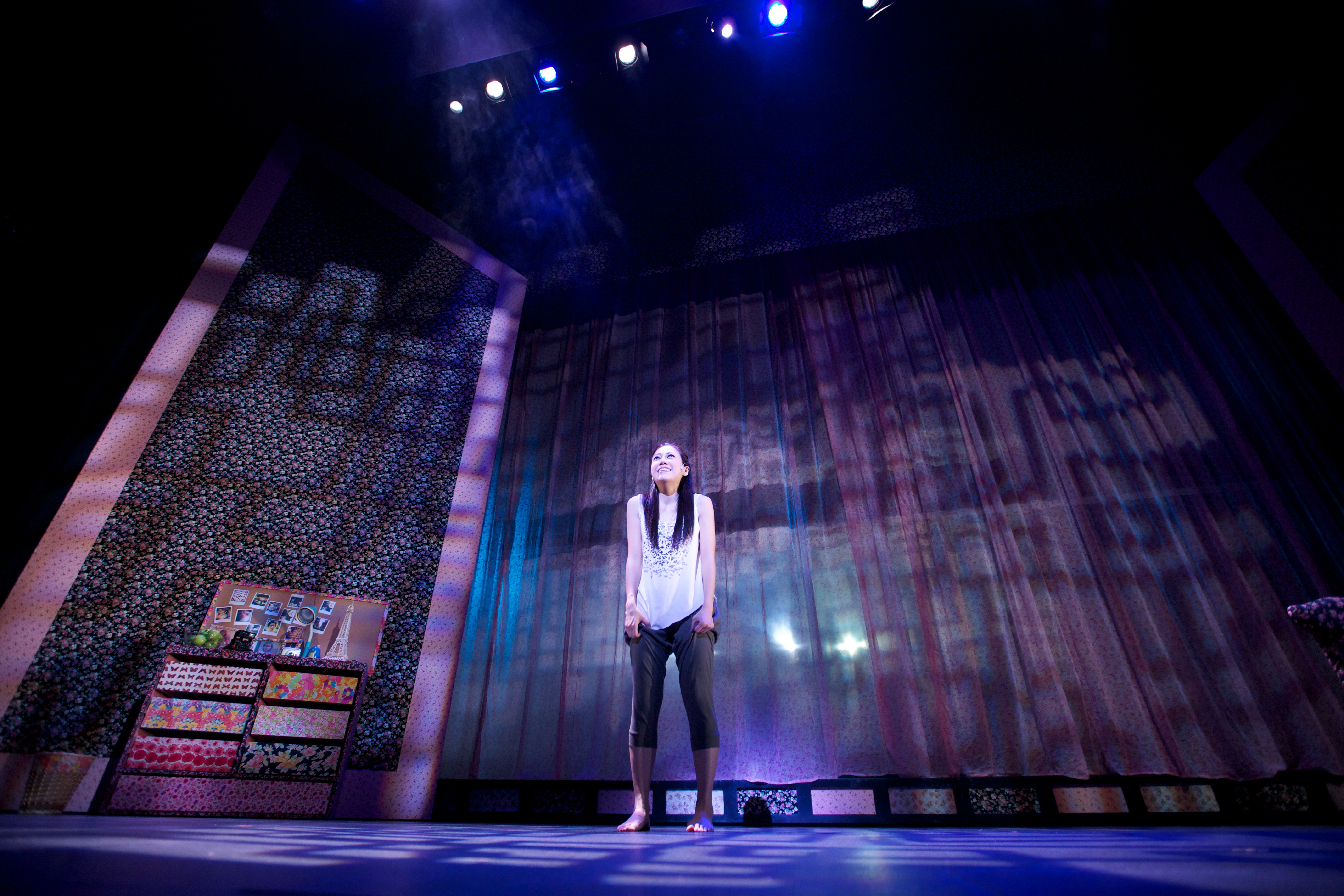 One of the scene in the play.